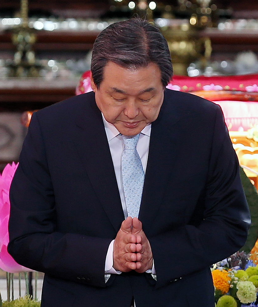 Kim Moo-sung at the Buddha's Birthday ceremony in South Korea (extracted from File:South Korea Buddha's Birthday ceremony 2015.jpg).